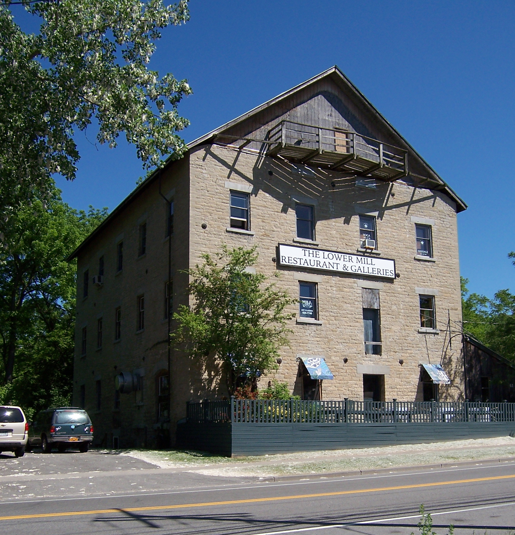 The Lower Mill in the village of Honeoye Falls in Monroe County, New York. Built by Hiram Finch as a flour mill on Honeoye Creek around 1829, the building now houses restaurant (The Rabbit Room) on the first floor and art studio/gallery space on the upper floors. The building is listed on the National Register of Historic Places. New York State Route 65 is in the foreground.